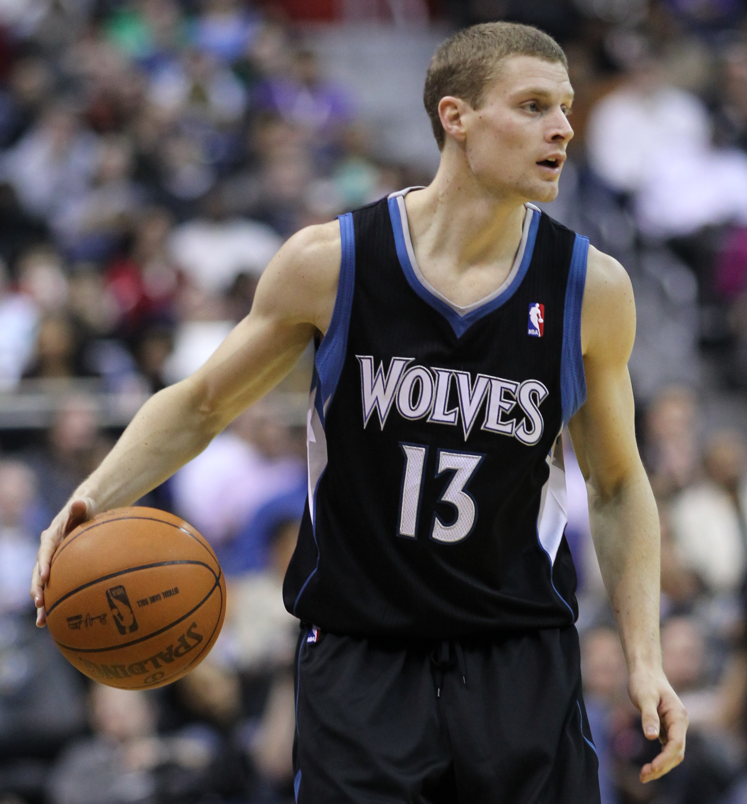 Wizards v/s Timberwolves 03/05/11